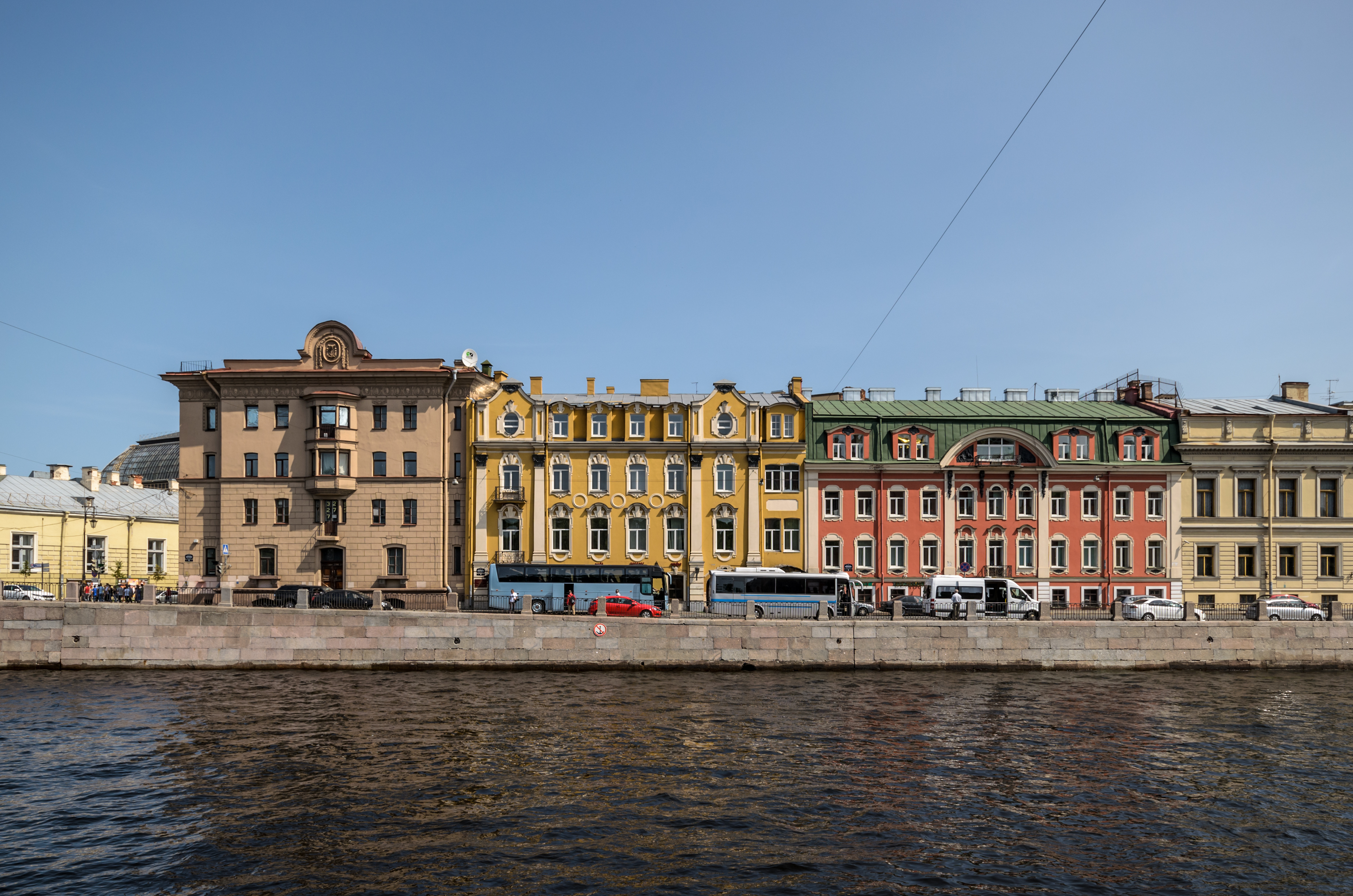 Fontanka Embankment in Saint Petersburg